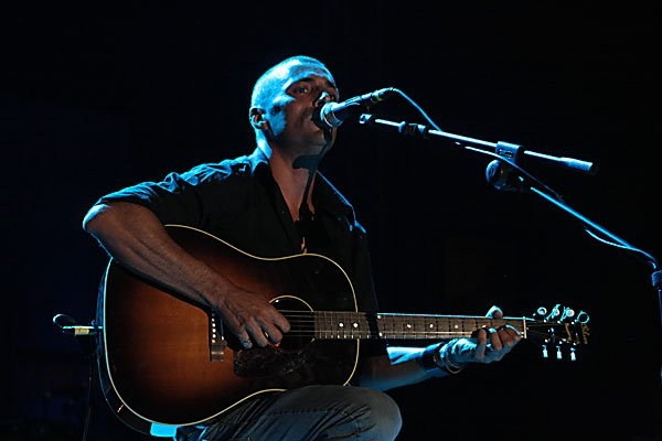 Alex Britti